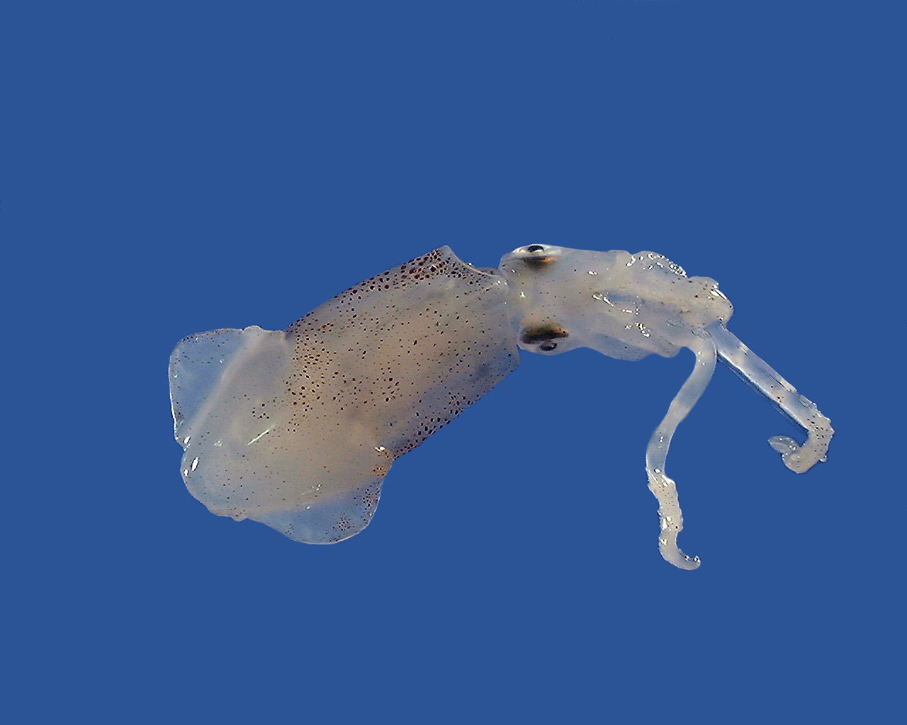 Atlantic brief squid ( Lolliguncula brevis ). Gulf of Mexico.